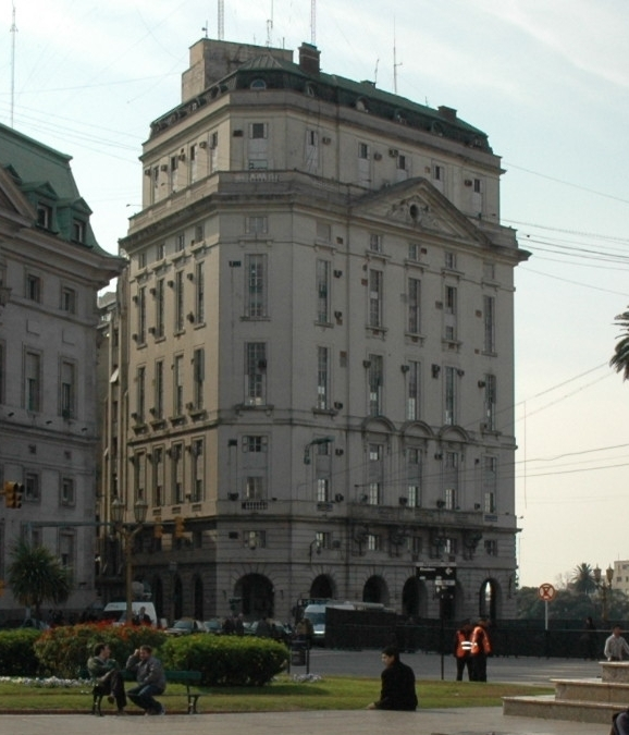 SIDE's main building (left) in Avenida 25 de Mayo 11, next to the Casa Rosada (right) in Downtown Buenos Aires. Note the antennas on the top of the building.